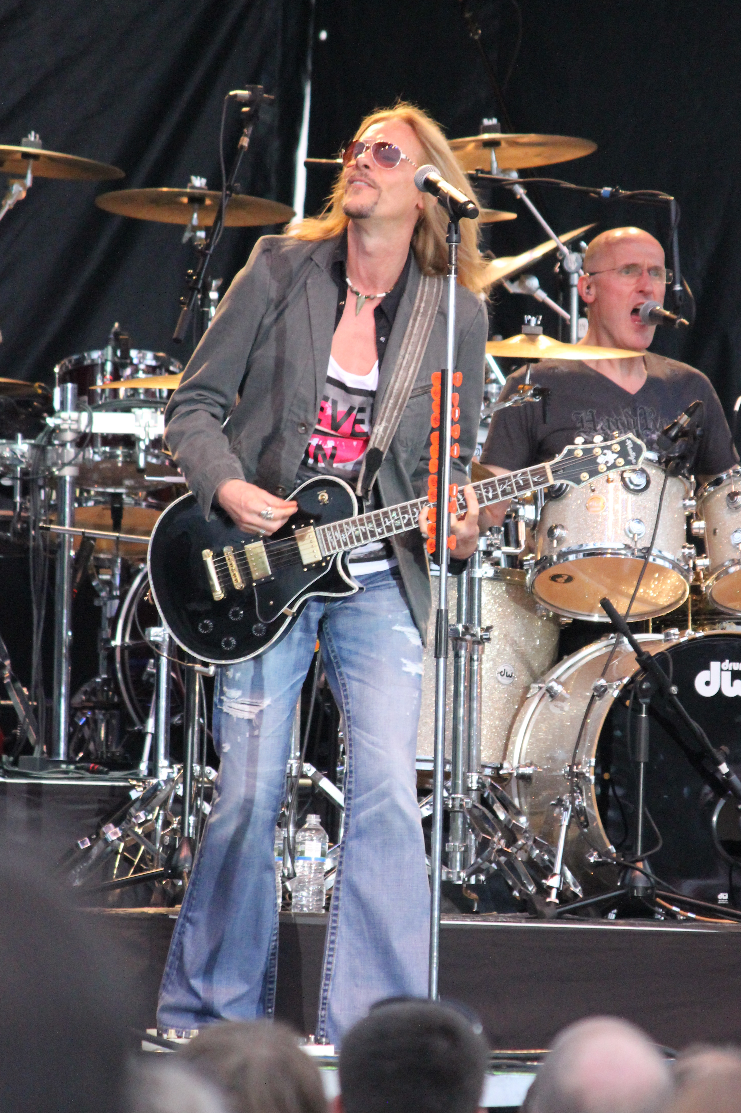 Derek Sharp playing with The Guess Who at Loess Fest in Council Bluffs, Iowa.